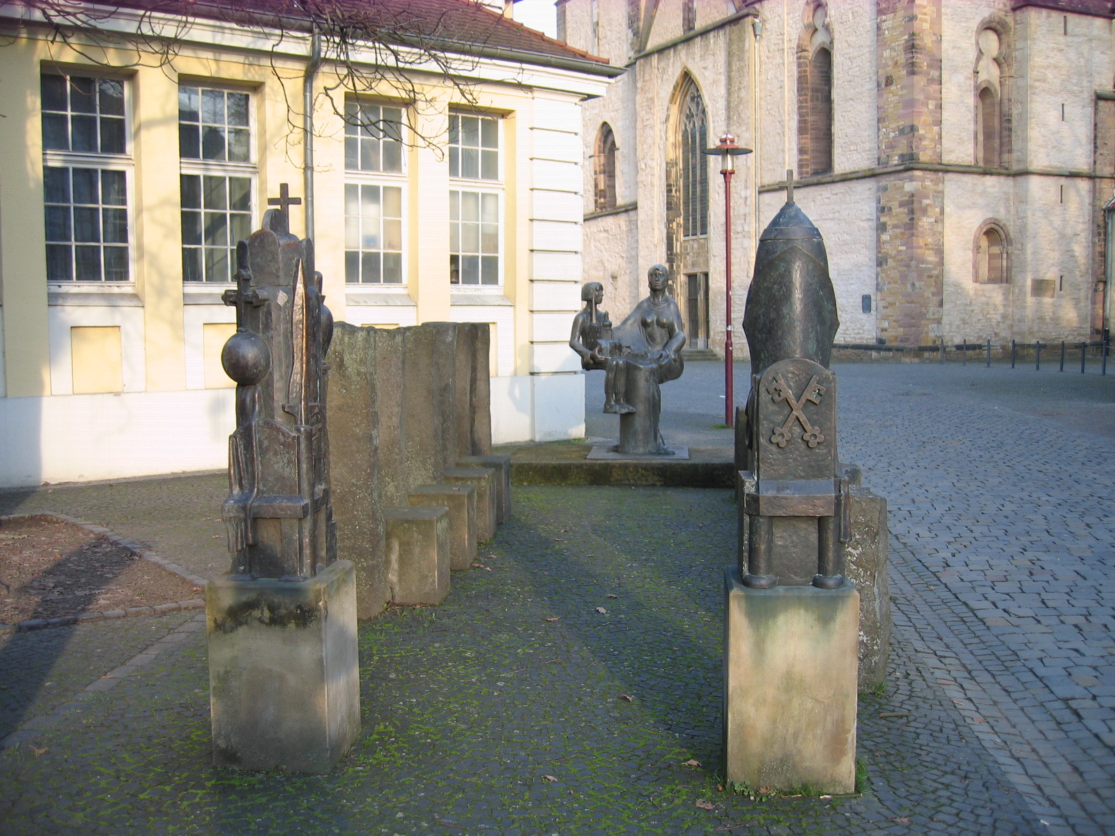 Memorial in Herford, District of Herford, North Rhine-Westphalia, Germany.